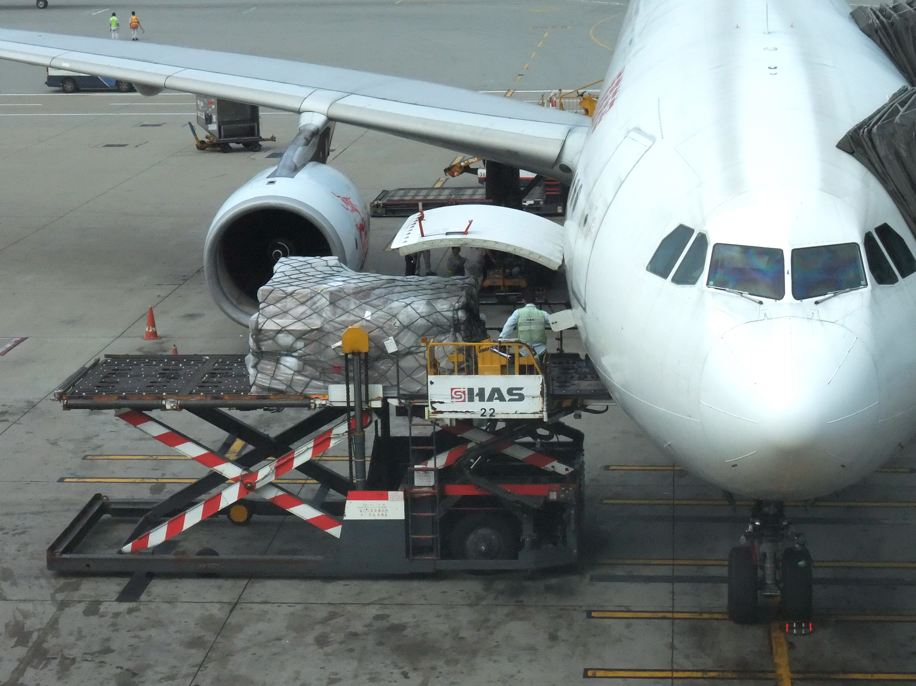 Hong Kong Airport Services providing aircraft loading services at the Hong Kong International Airport.